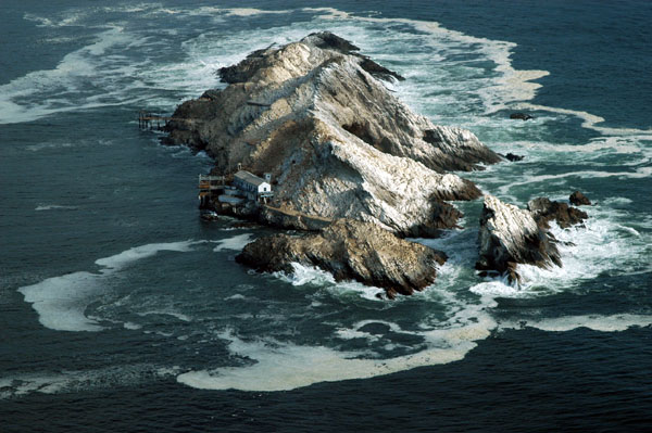 Close-up aerial photo of Mercury Island in Spencer Bay, adjacent to the diamond sperrgebiet. It is situated 110km north of Lüderitz, in the Karas region of Namibia